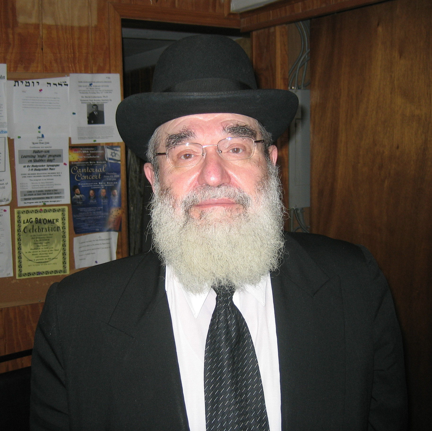 Photo of Rabbi Reuven Feinstein